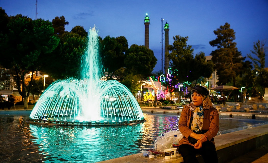 Ramadan 1439 AH, Iftar at Haft Howz sq, Tehran - 29 May 2018. main album